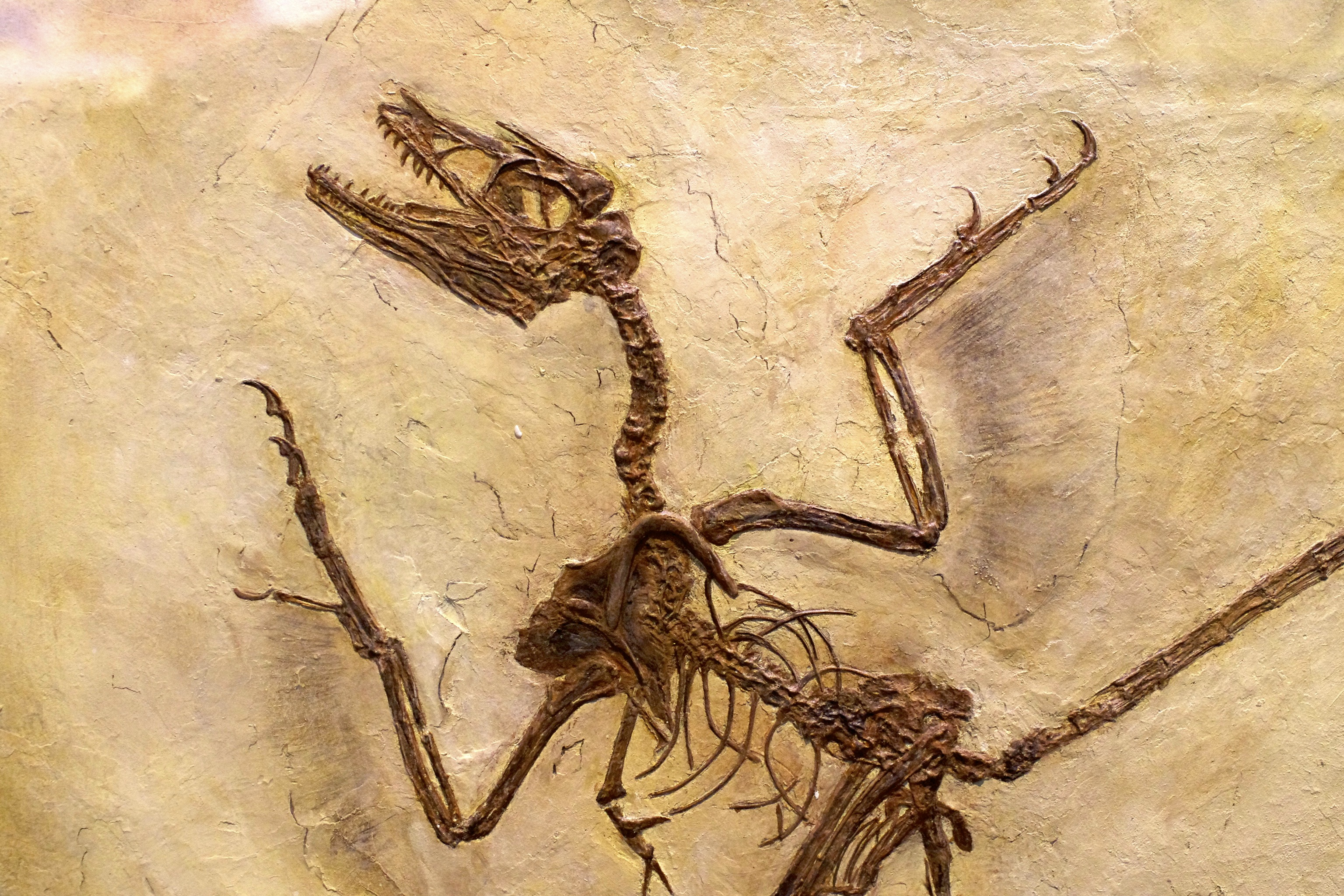 ミクロラプトル ドロマエオサウルス類 豊橋市自然史博物館 Toyohashi Museum of Natural History, Toyohasji city, Aichi, Japan